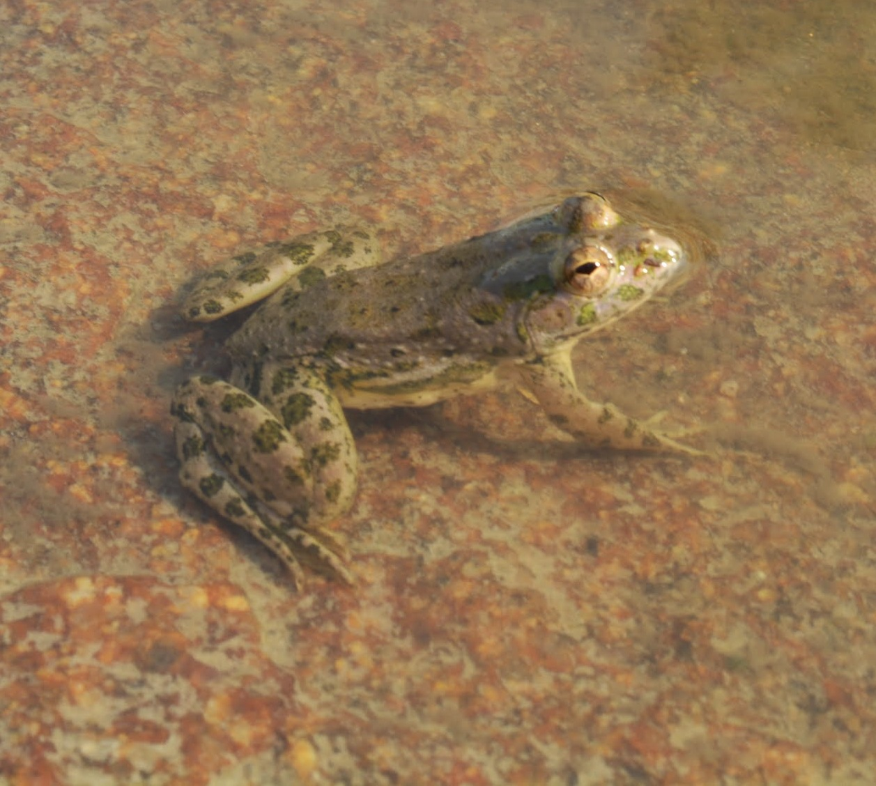 Frogs